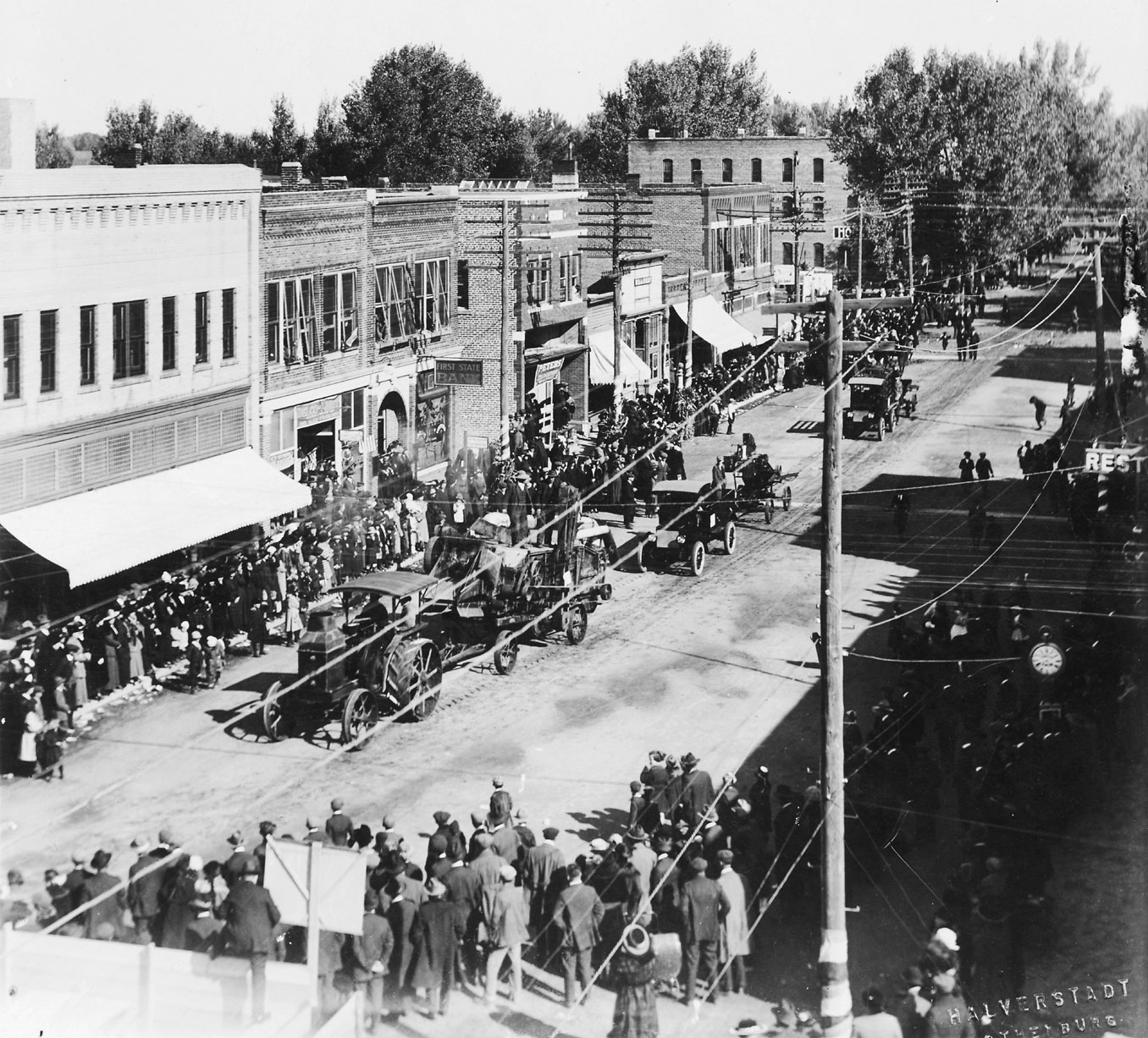 A parade in downtown Gothenburg in 1916. You can see 1st State Bank's location and it still stands there today.